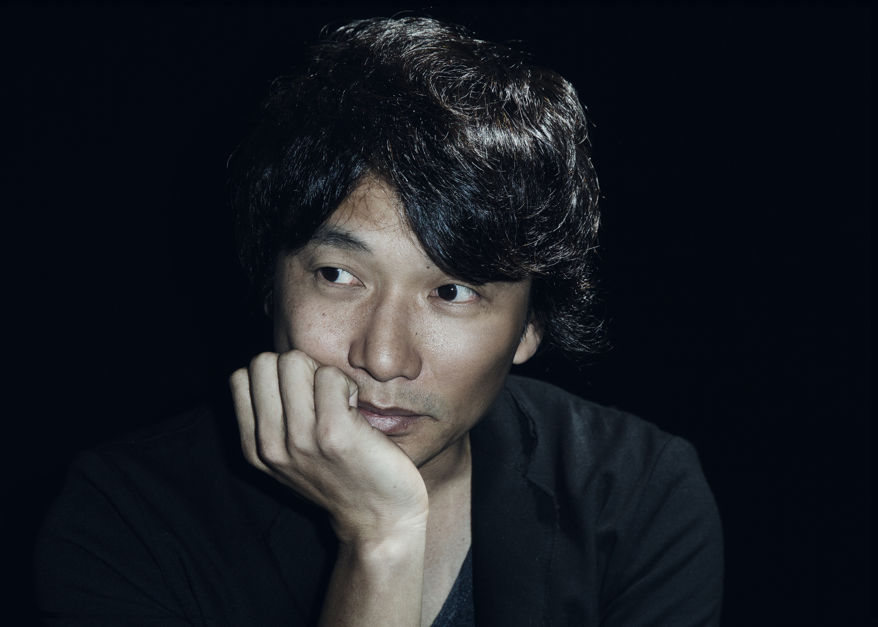 E3 2016 - Wired Interview